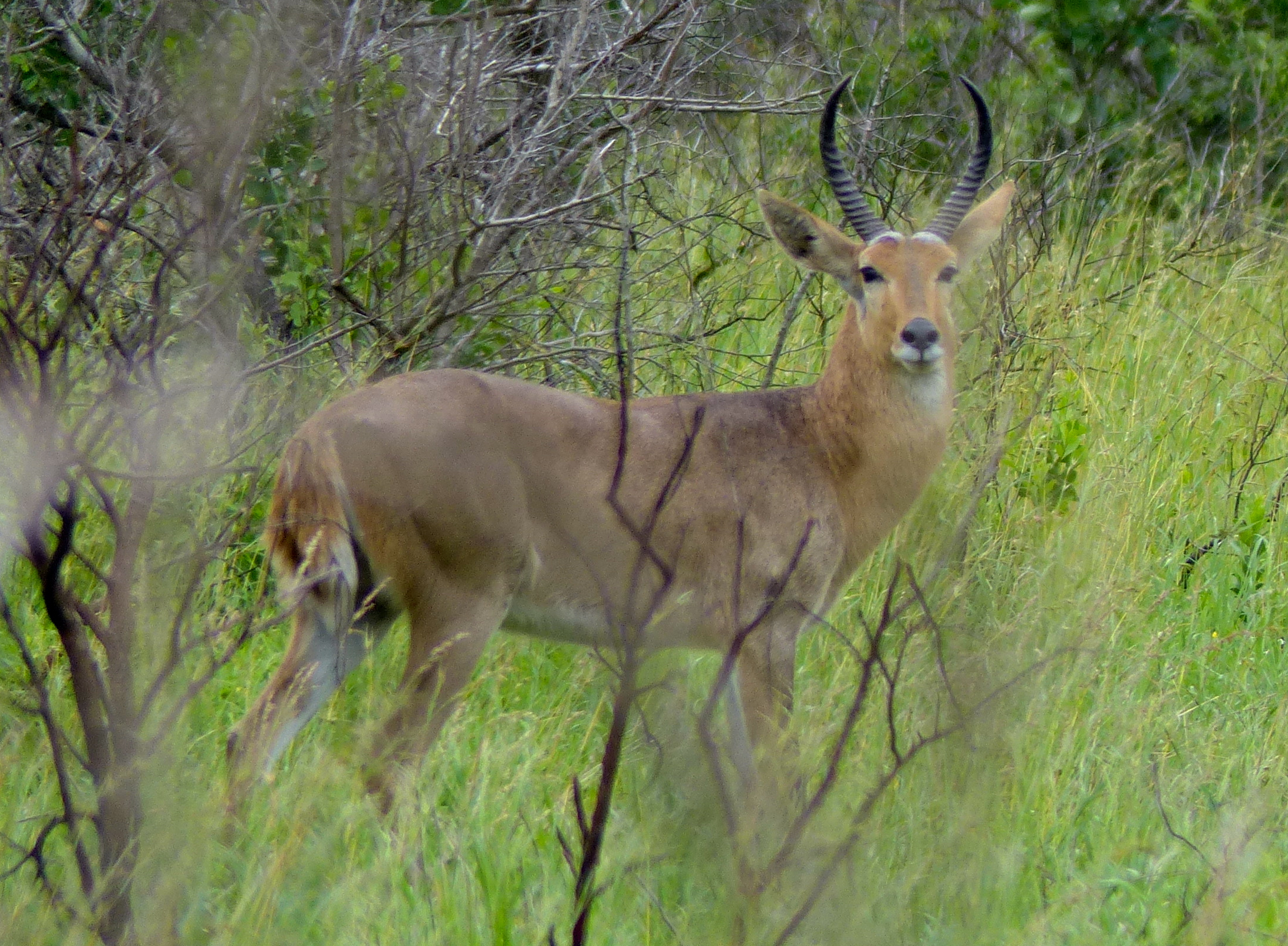 H10 Road North of Lower Sabie, Kruger NP, SOUTH AFRICA